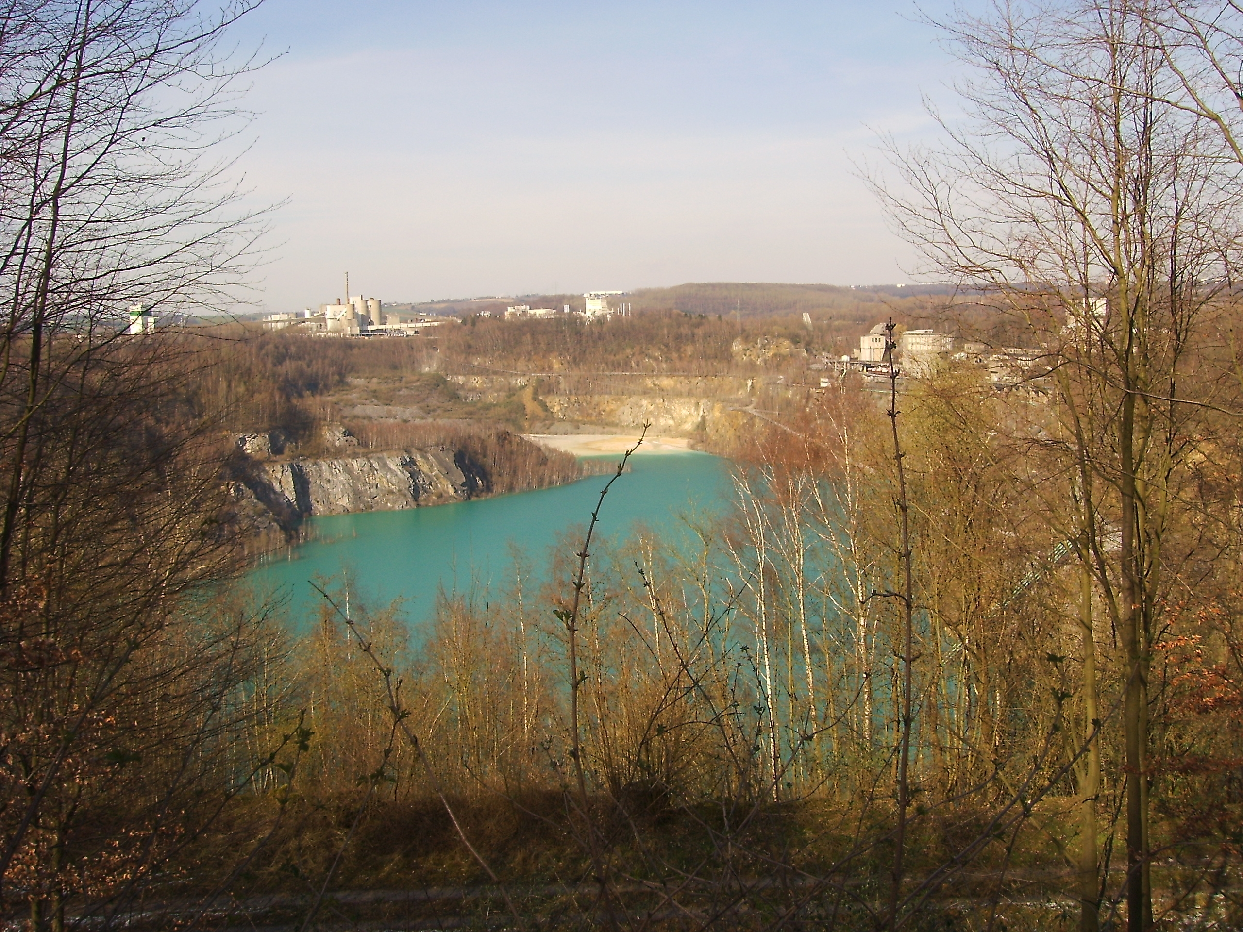 Wülfrath, Kalksteinbruch, (Rheinkalk AG Werk Flandersbach) biggest Limestone factory in Europe, part of Lhoist group (biggest in the world)